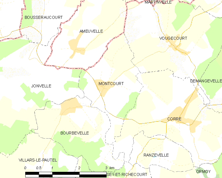 Map of French municipality